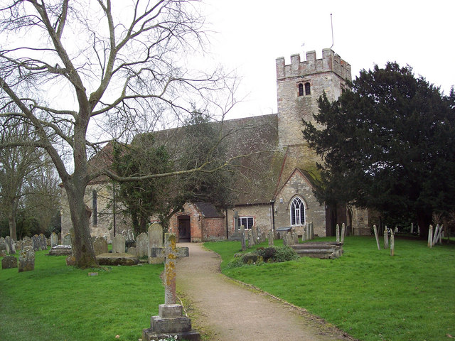 The Church of St Mary our Lady, Sidlesham The church has its origins in the 13th century and is built of stone rubble. The tower is 16th century while the porch was built in the 19th century.